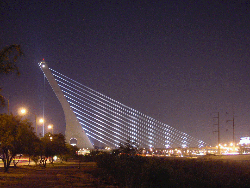 The "Puente atirantado" from the city of Monterrey, Mexico